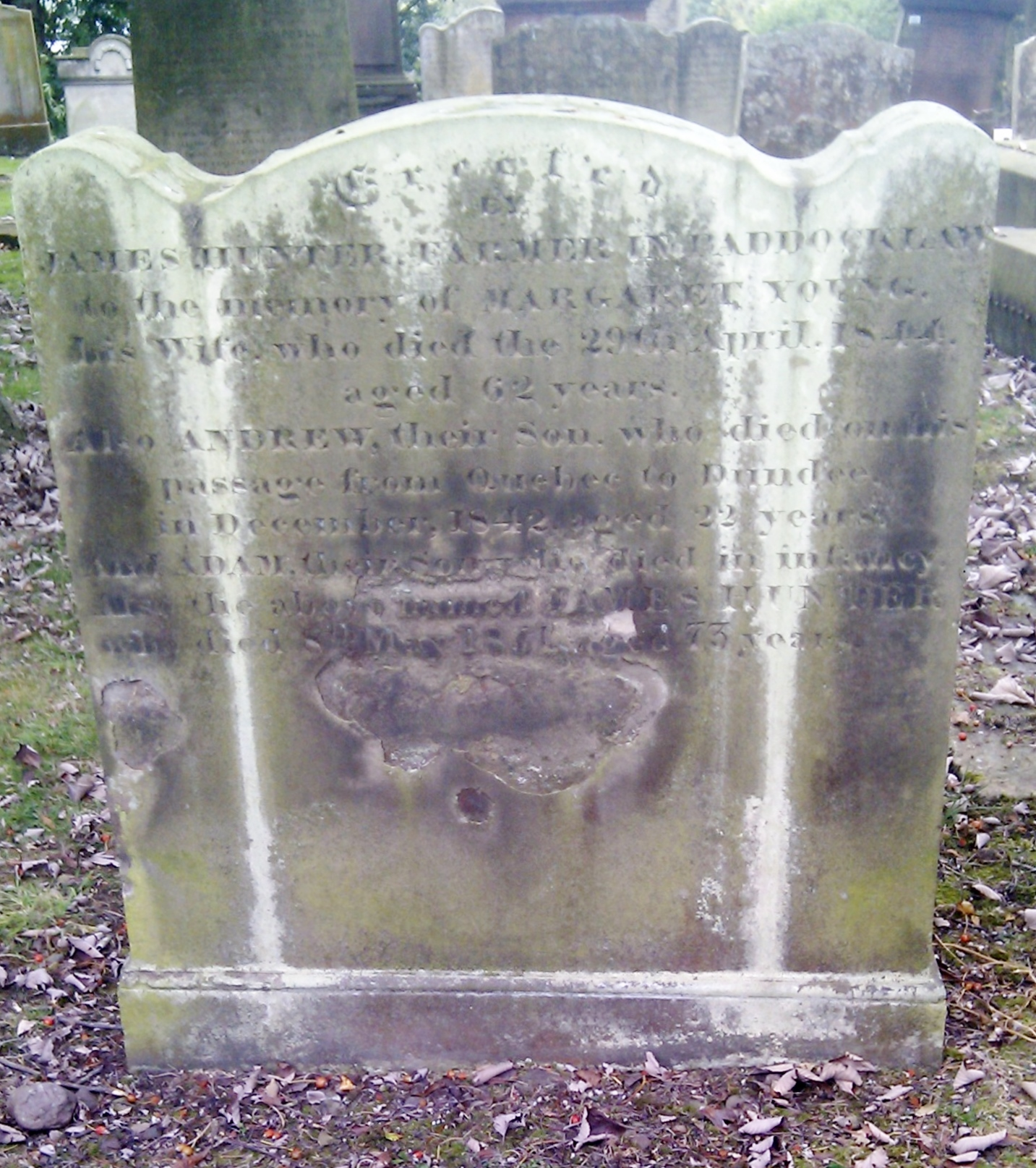 Gravestone of James Hunter, Farmer at Paddocklaw, Dreghorn churchyard, North Ayrshire, Scotland.